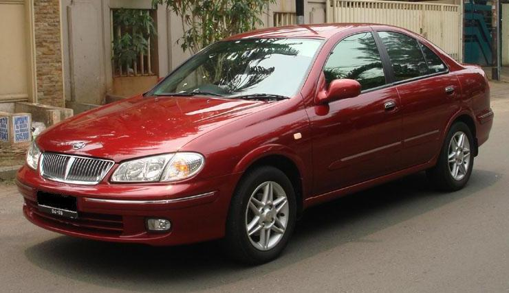 2004 Nissan Sentra 1.8 Super Saloon N16. Photo by Celica21gtfour.